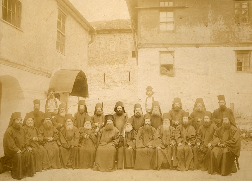 Irenaeus of Cassandria and the Holy Community of Mount Athos during the making the General Statutes of Mount Athos.